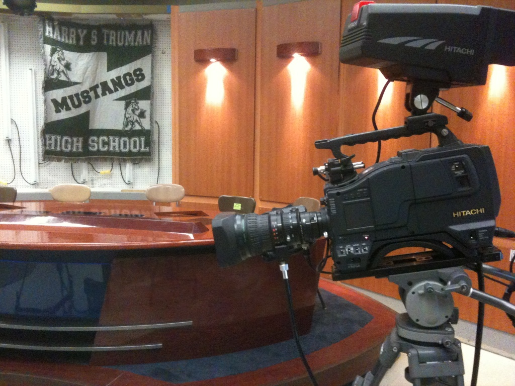 News Studio at the Harry S Truman High School, which includes an anchor desk and set donated by News 12 The Bronx